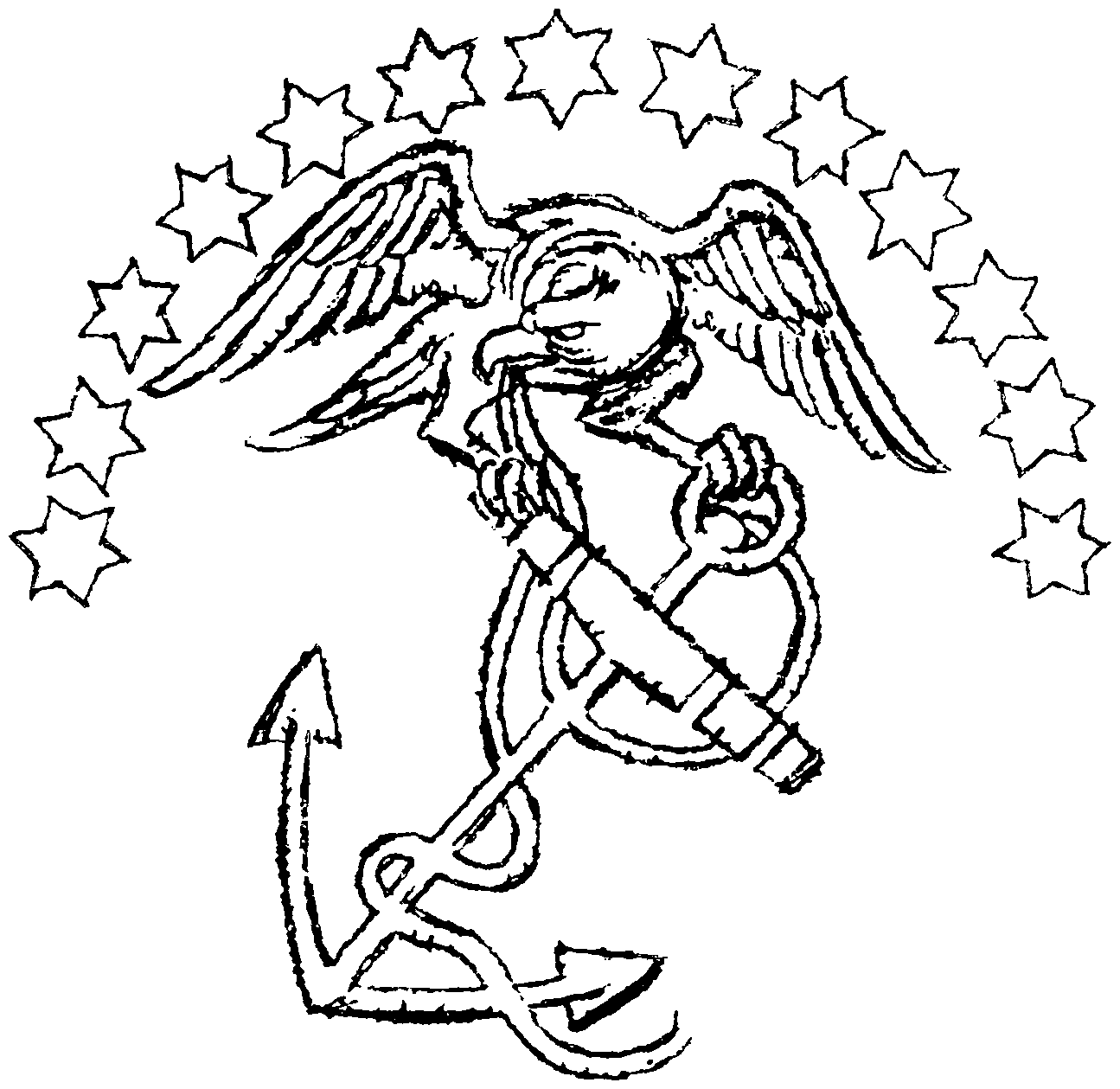 An eagle clutches a fouled anchor surrounded by 13 six-point stars, the progenitor to the United States Marine Corps's Eagle, Globe, and Anchor insignia. It can be found today on uniform buttons